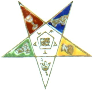 The Order of the Eastern Star logo as shown on a porcelain cup and saucer. This form of the logo, displayed as a pentagram, seems to have been the most common form until it was superseded with this form in which the central pentagon has been twisted by 36°. Many examples of the older form of the logo can be found on a wide variety of objects, as seen here, for example. This particular image was based on this photo of a saucer, substantially retouched by me (without altering the distinguishing features of the logo), and I release it to the public domain.